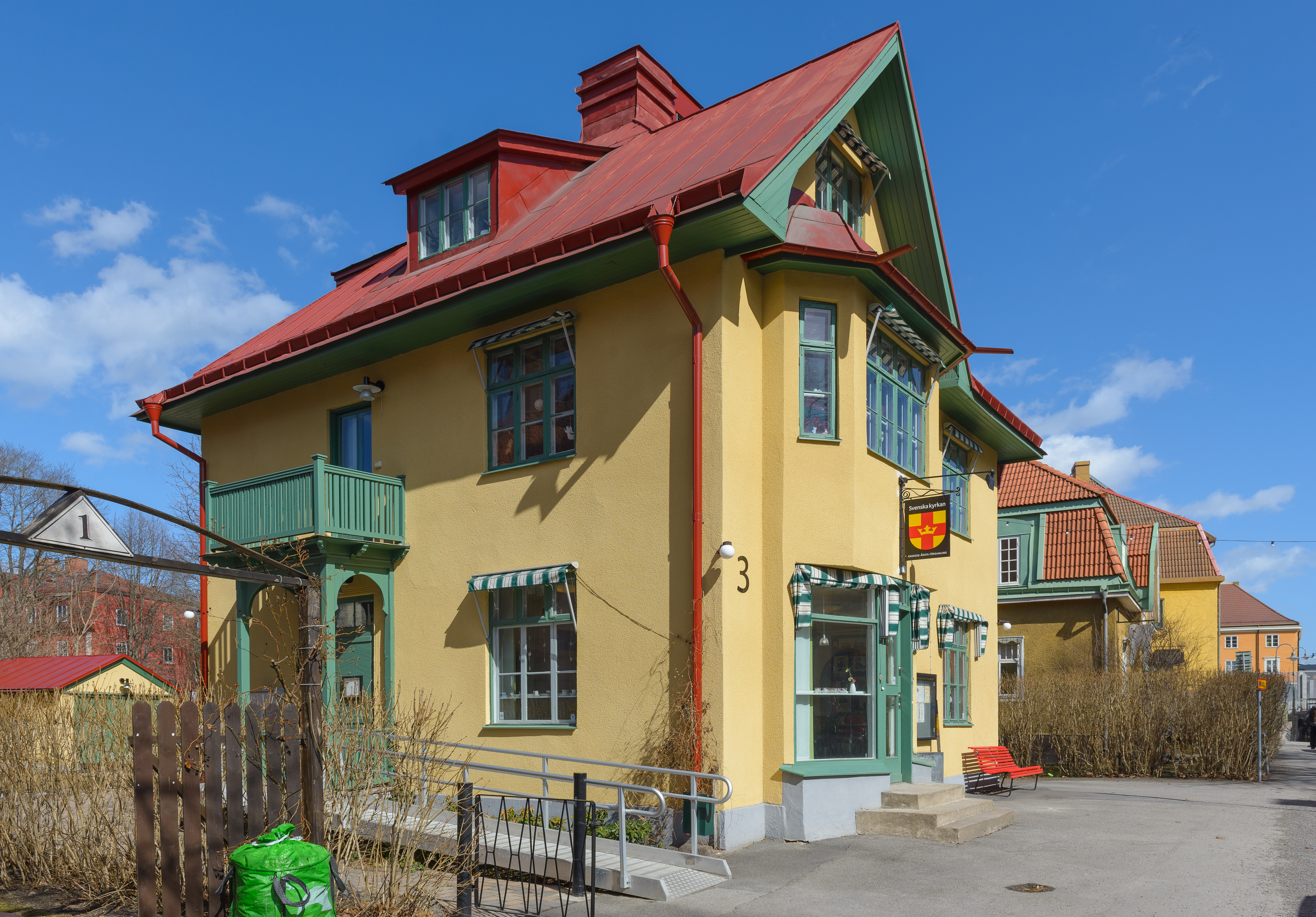 Kyrkvillan (the Church house) at Stora gungans väg 3, in Gamla Enskede. Built 1908, architect Frithiof Svensson. Gamla Enskede is a district of Enskede-Årsta borough, South Stockholm, Sweden. The house belongs to Enskede-Årsta parish.